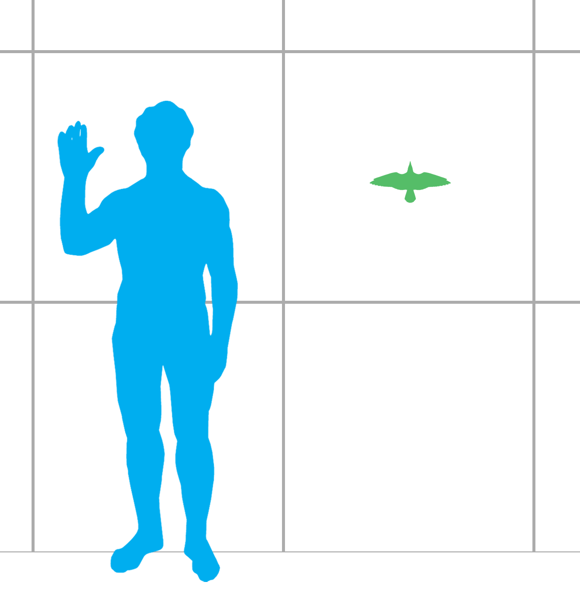 Scale of Hongshanornis longicresta compared with a human. Hongshanornis outline taken from Chiappe LM, Zhao B, O’Connor JK, Chunling G, Wang X et al. (2014) A new specimen of the Early Cretaceous bird Hongshanornis longicresta: insights into the aerodynamics and diet of a basal ornithuromorph. PeerJ 2:e234 and produced by Chiape et al.